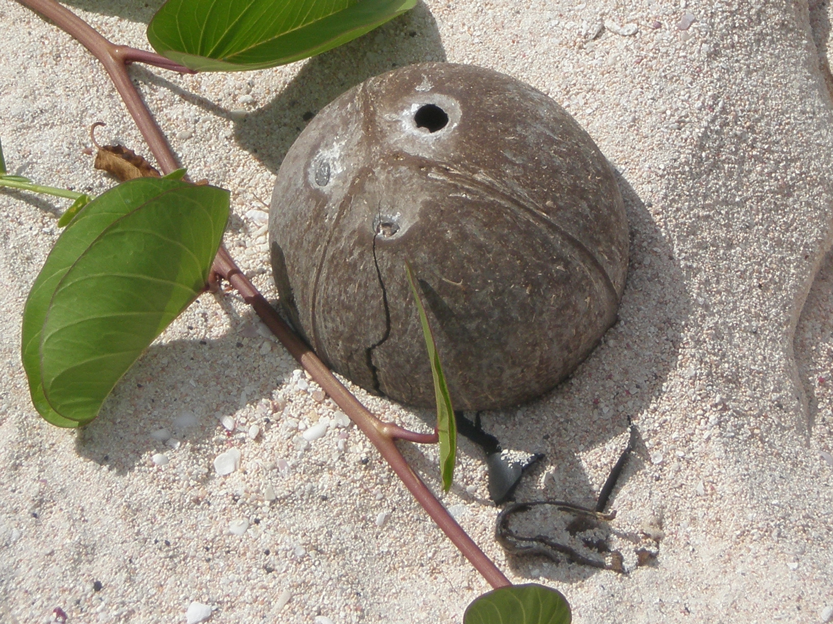 Coconut shell on white sandy beach, Samoa